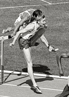 Bo Forssander, first semi-final of men's 110 metre hurdles in Mexico City Olympics